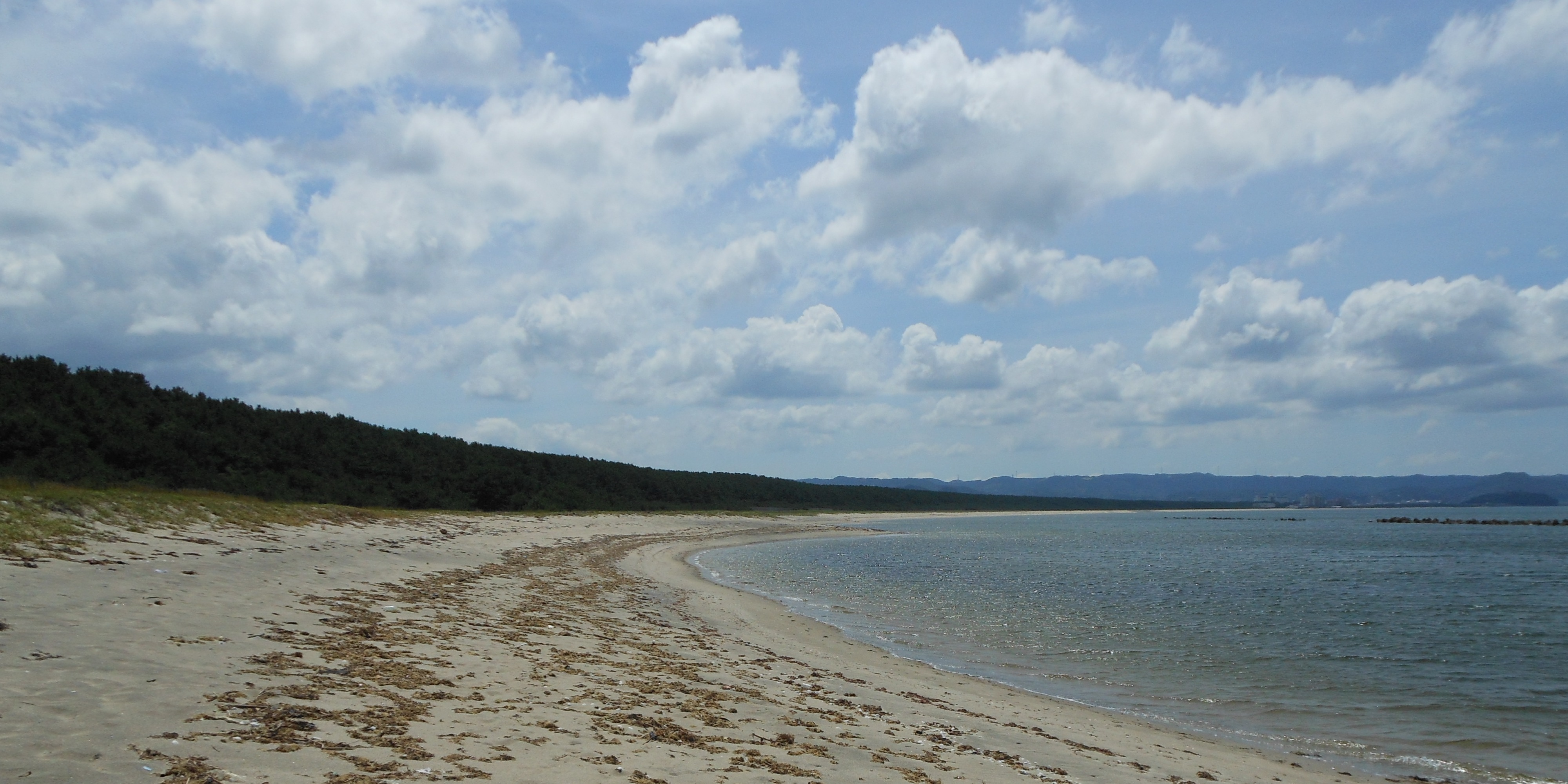 Nijinomatsubara from Hamasaki beach, in Hamatama, Karatsu city, Saga prefecture, Japan.